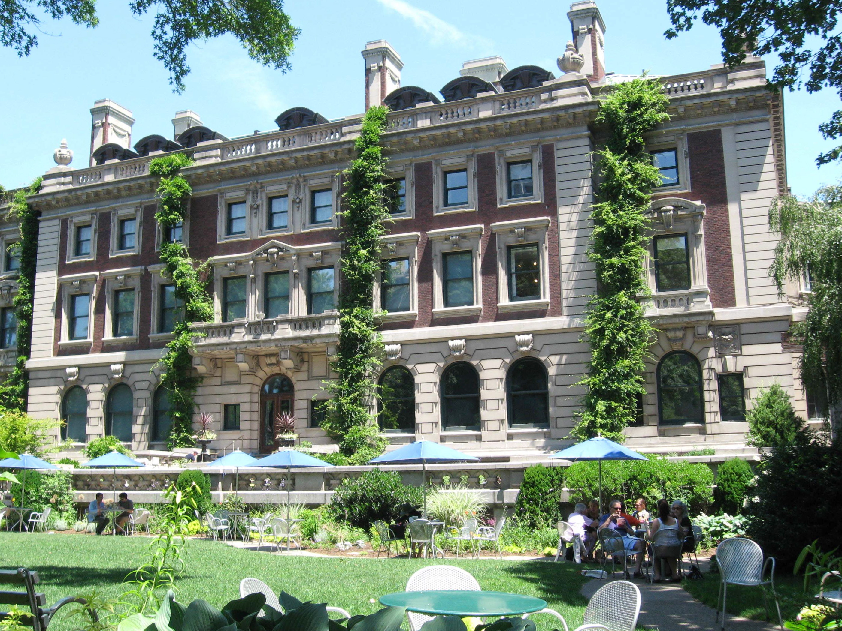 Looking north from East 90th Street at the rear garden of the Andrew Carnegie Mansion—Cooper-Hewitt, National Design Museum, on a mostly sunny midday in June, NYC.